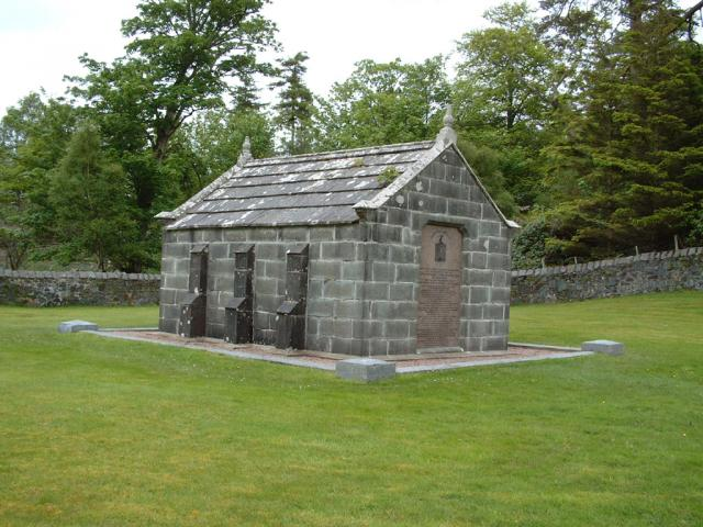 Macquarie Mausoleum (Mull) The mausoleum near Gruline on the Island of Mull, the Macquarie Mausoleum is the burial place of Major General Lachlan Macquarie of Ulva (1761 - 1824), Governor of New South Wales 1810-21 and 'father of Australia'.